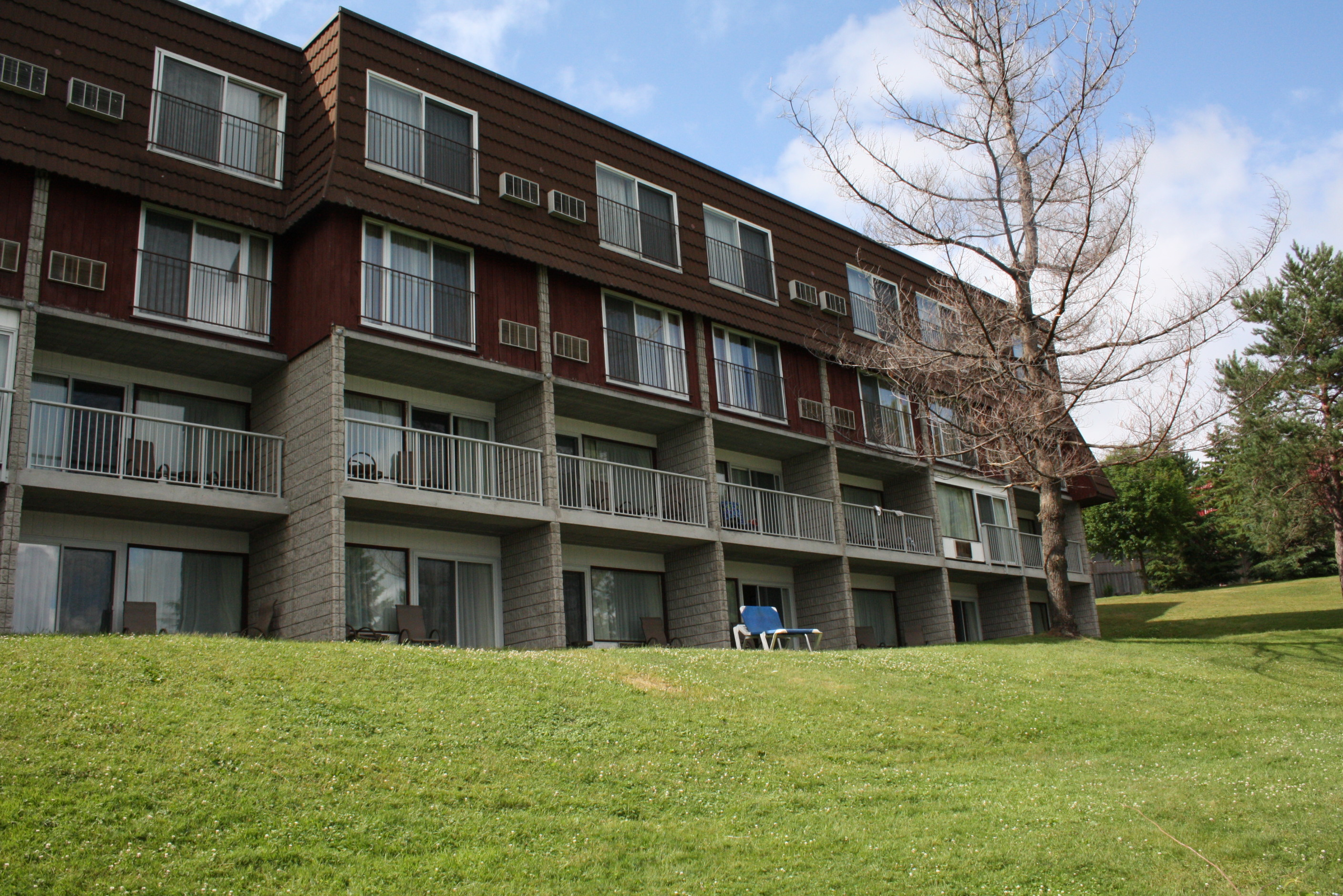 Bayshore 1, an accommodation block at Deerhurst Resort, Ontario.